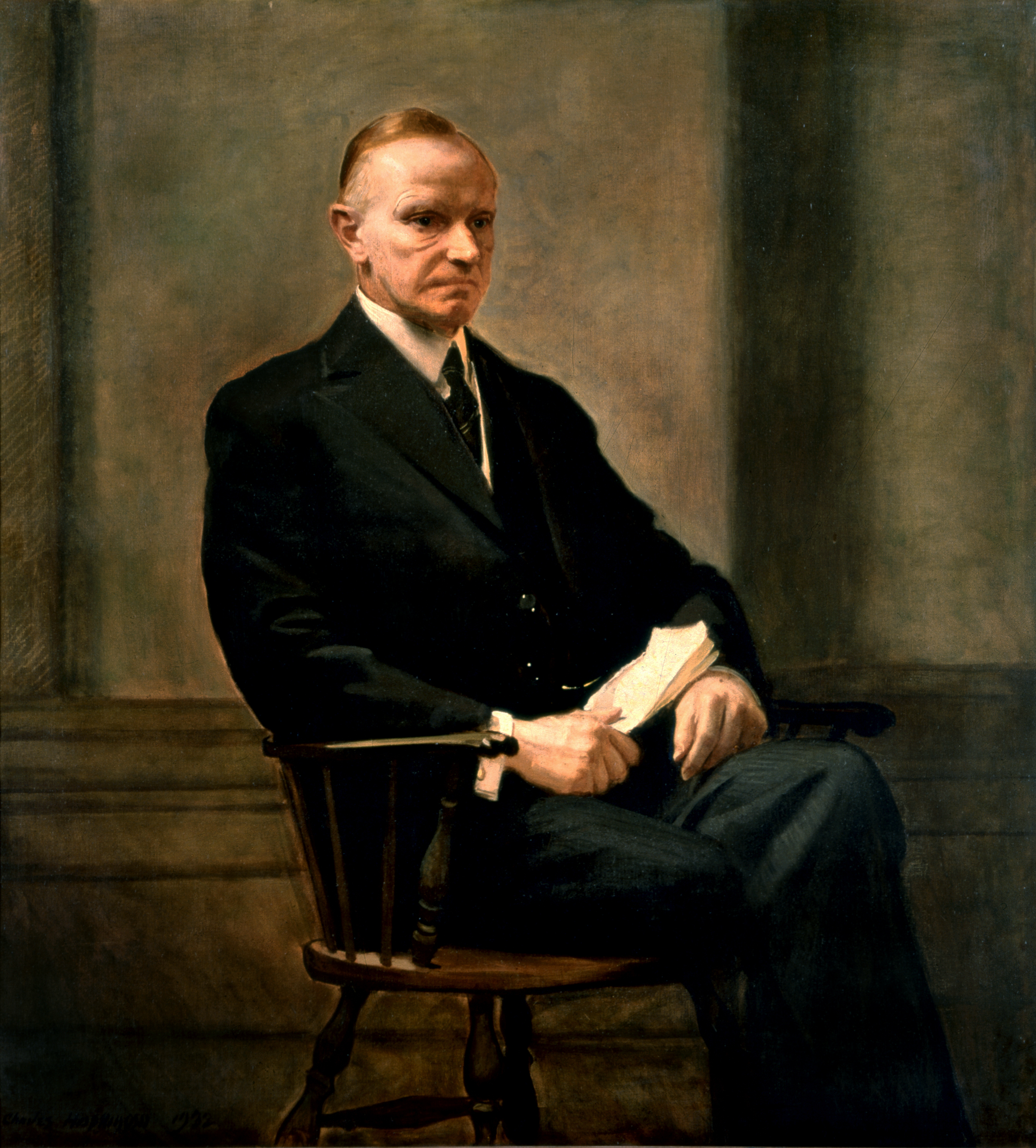 Calvin Coolidge. 30th President of the United States (1923-1929)